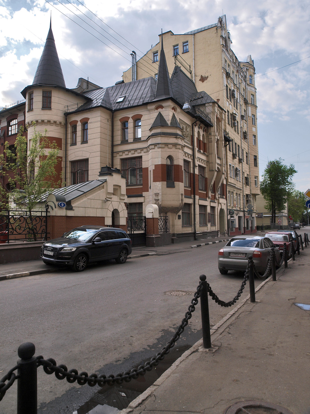 Trekhprudny Lane, Moscow. The Levinson Printhouse by Fyodor Schechtel.